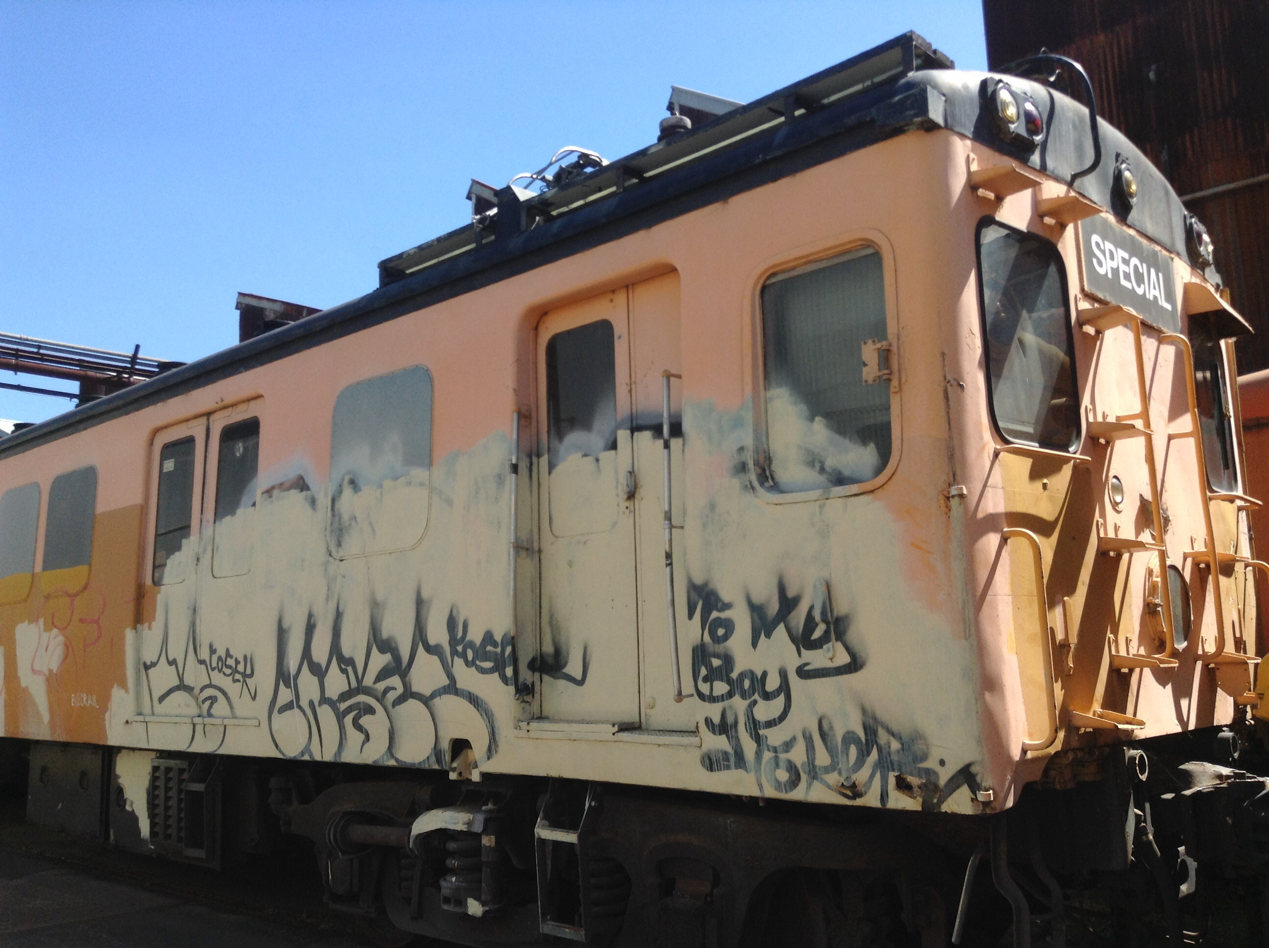 A Harris 'Greaser' Awaits restoration by Steamrail, Victoria in 2014